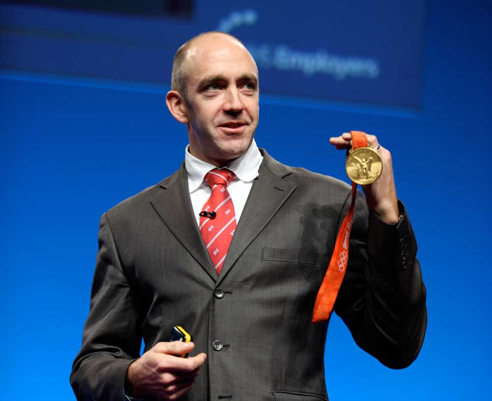 Tim Brabants - NHS Employers annual conference - plenary 16 November 2011